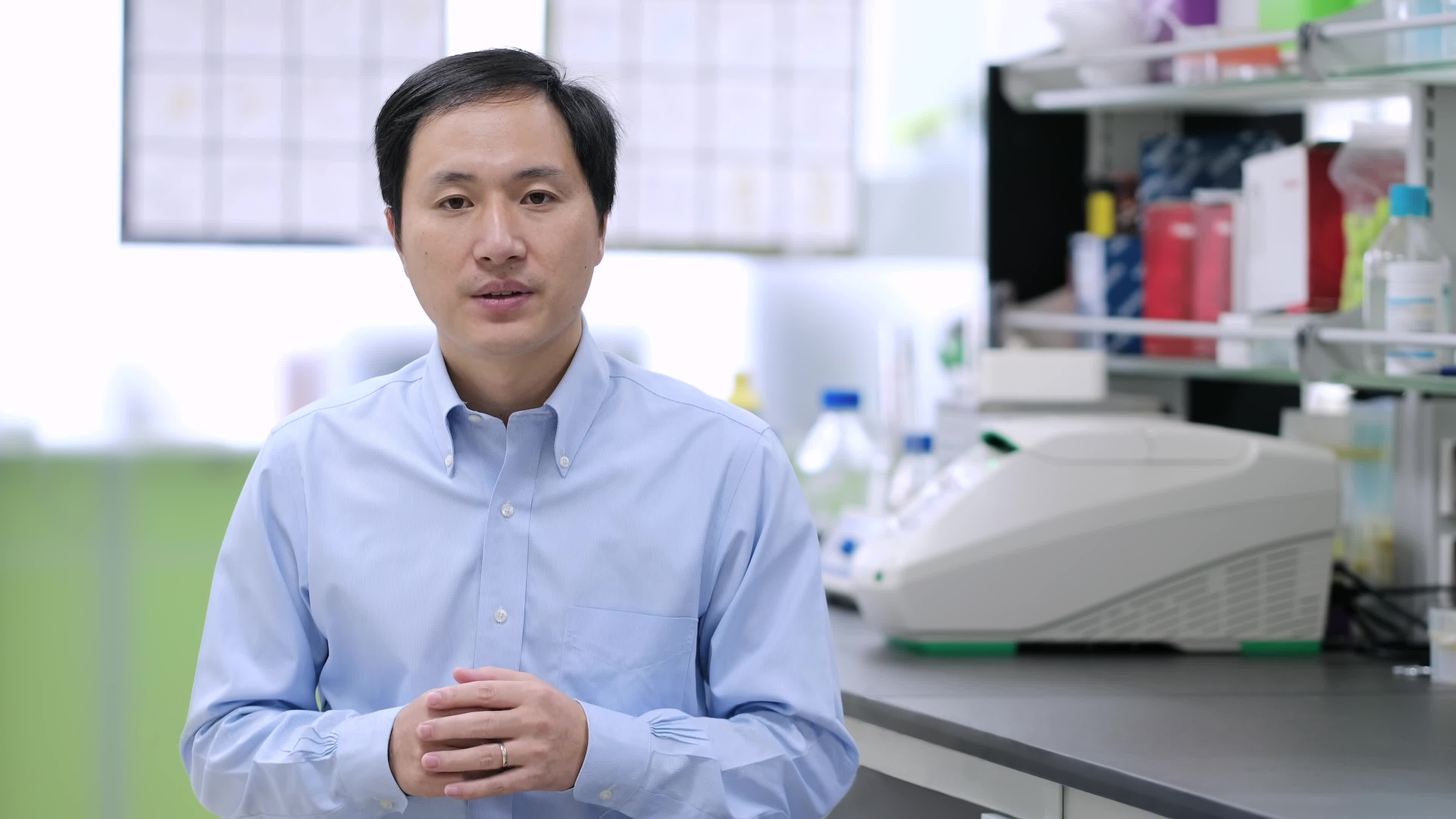 Chinese biomedical researcher Dr. Jiankui He